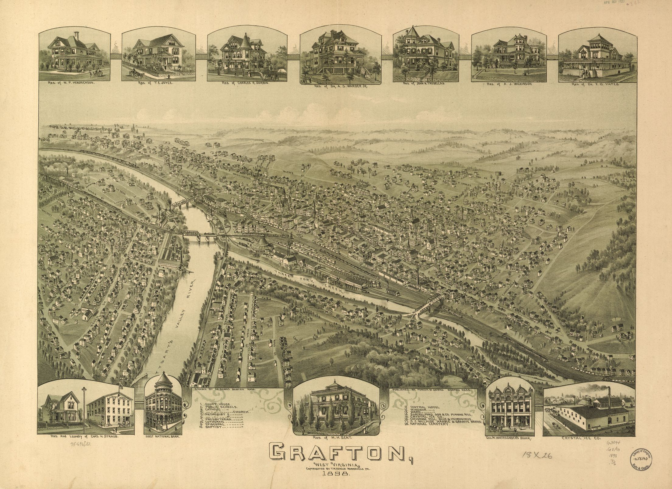 "Bird's Eye View" (sketch) of Grafton, West Virginia; Copyrighted by T.M. Fowler, Morrisville Pa (1898).